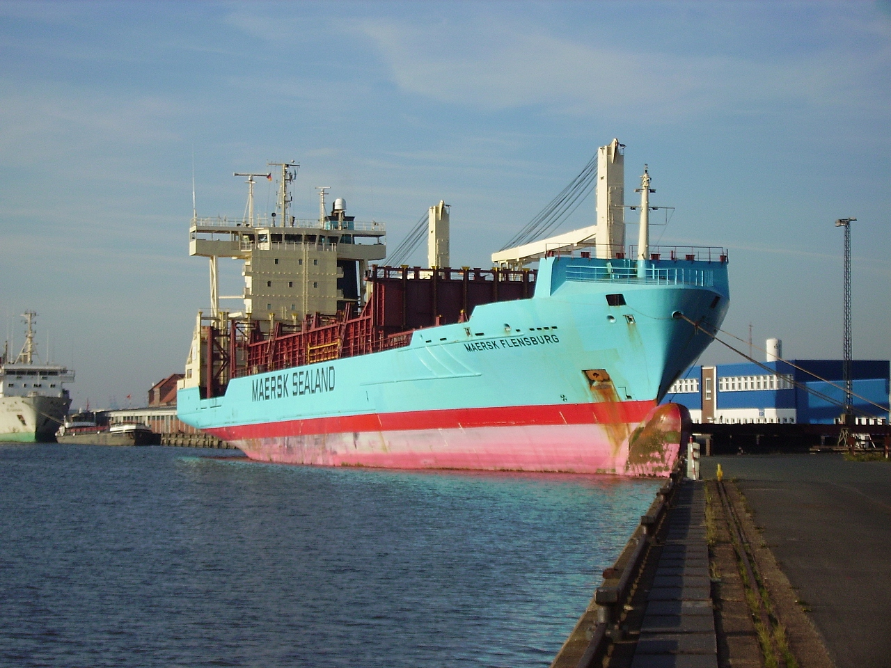 Containership "Maersk Flensburg" undergoing repair or maintenance works in Bremerhaven, Germany. IMO Number: 9252773 MMSI Number: 235004960 Callsign: VQEO8 Length: 135 m Beam: 22 m